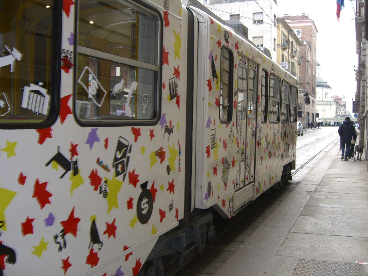 Tram in Turin, Italy